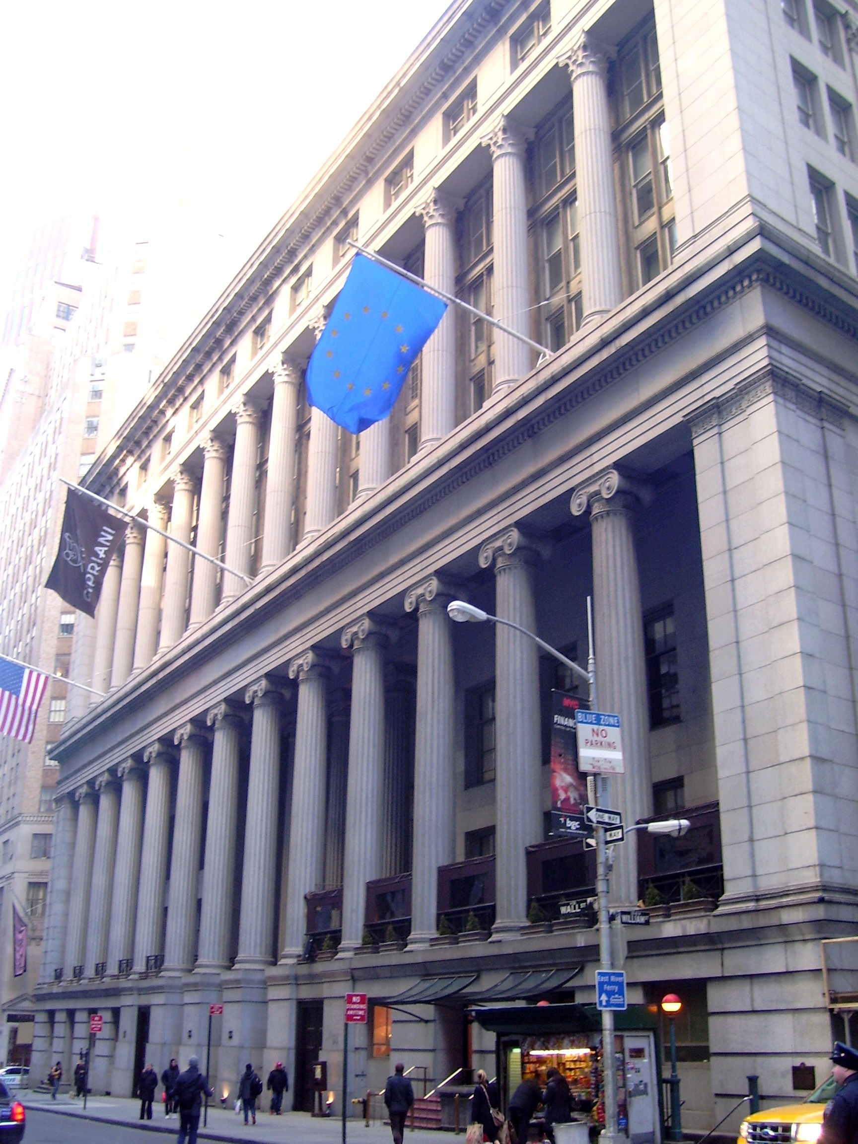 The National City Bank Building at 55 Wall Street between William and Hanover Streets in the Financial District of downtown Manhattan, New York City, was built in 1836-41 as the Merchants' Exchange and was designed by Isaiah Rogers in the Greek Revival style. The United States Custom House moved into the building in 1862, with the conversion done by William A. Potter, and occupied it until 1907, after which it was purchased by National City Bank. Charles McKim of McKim, Mead & White was engaged to enlarge the building, including removing the dome, adding four floors and a second colonnade and gutting the interior, the main floor of which McKim redesigned with William S. Richardson. The old main banking hall has been used as a ballroom since 1998 and is now Cipriani Wall Street, and the remainder of the building is now condominium apartments, the Cipriani Club Residences. (Sources: Guide to NYC Landmarks (4th ed.) and AIA Guide to NYC (5th ed.))